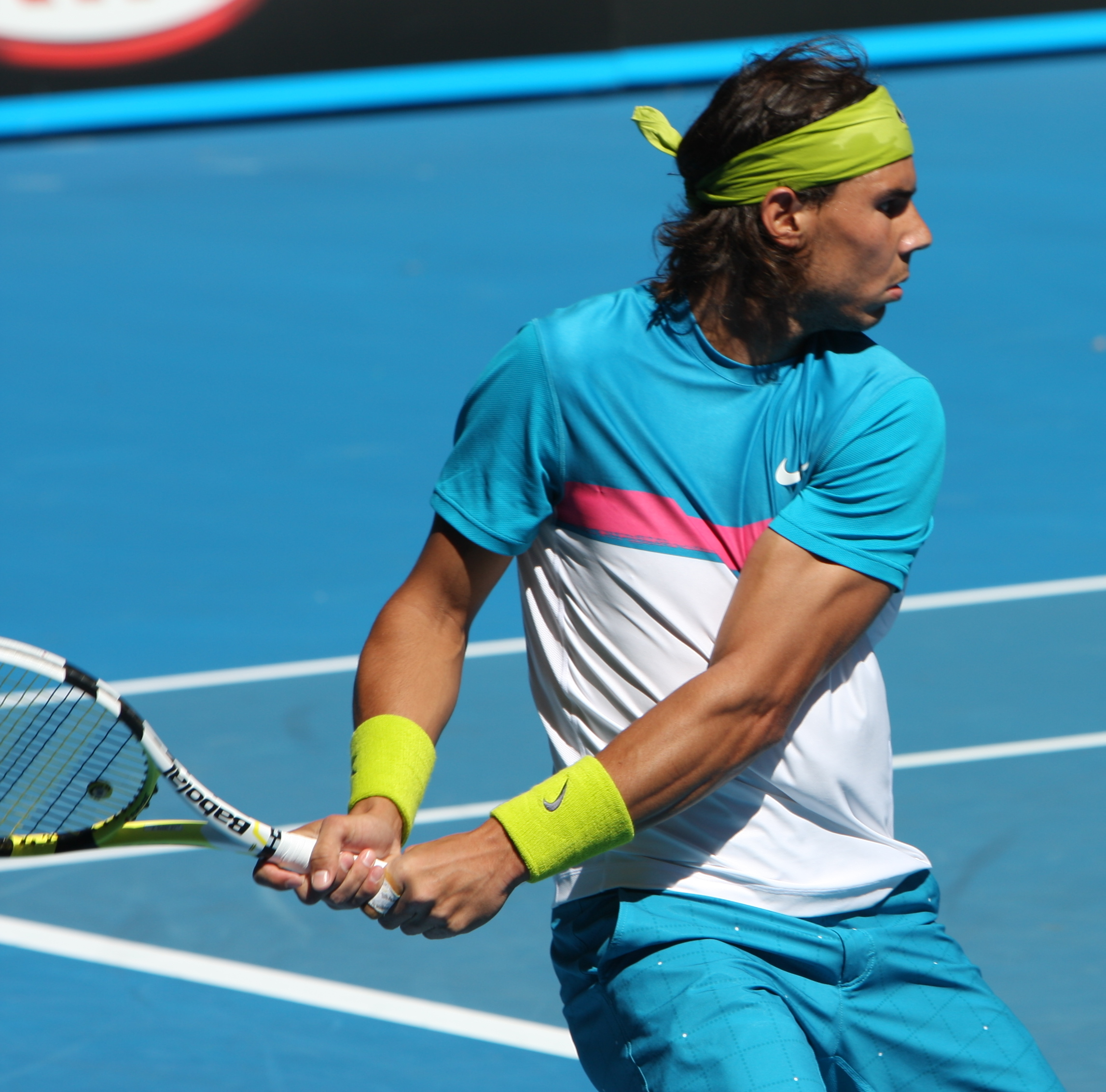 (cropped) Rafael Nadal at 2009 Australian Open, Melbourne, Australia.